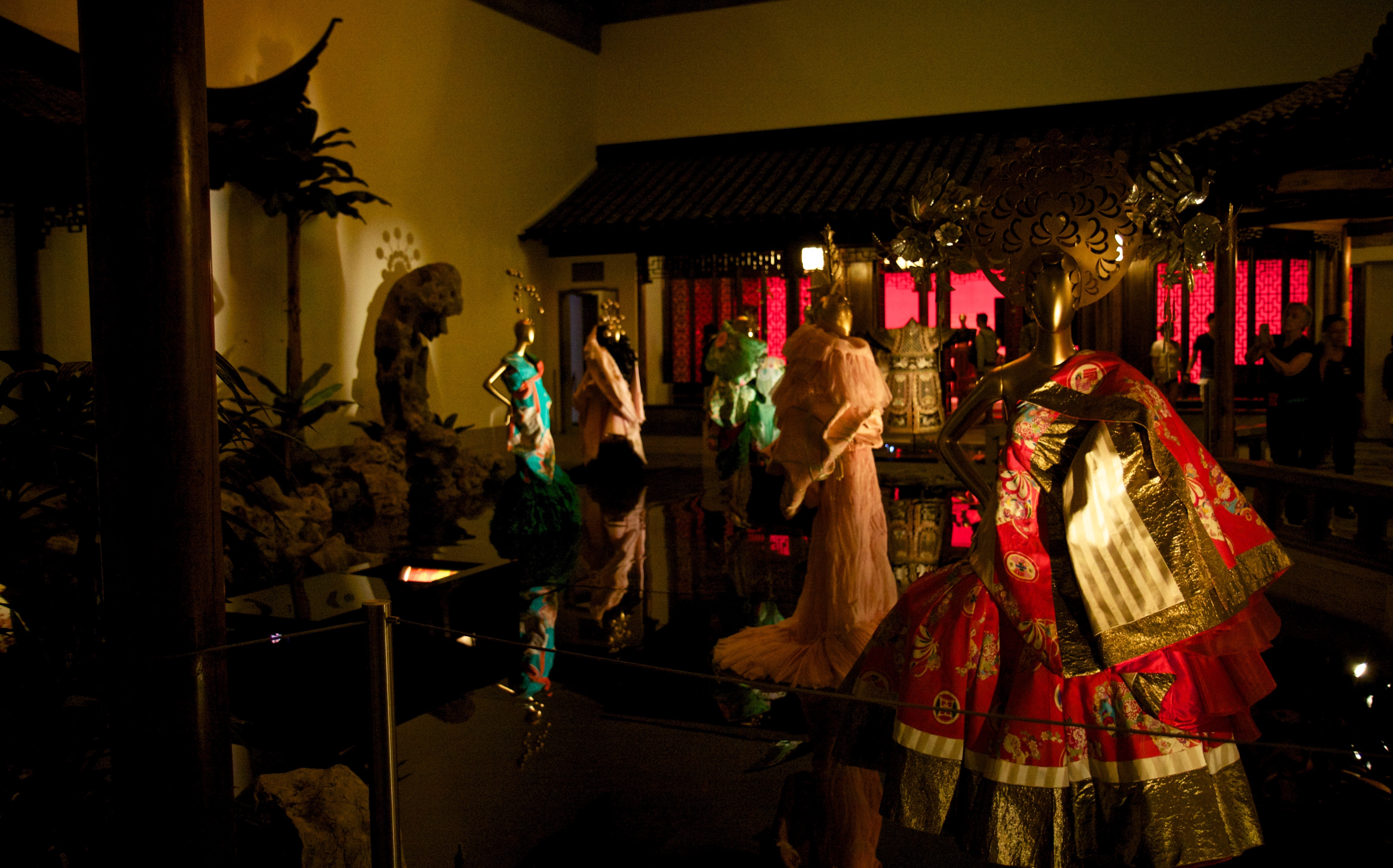 Exhibition of Chinese-inspired art and fashion in the exhibition "China: Through the Looking Glass" in the Metropolitan Museum of Art, New York City, United States